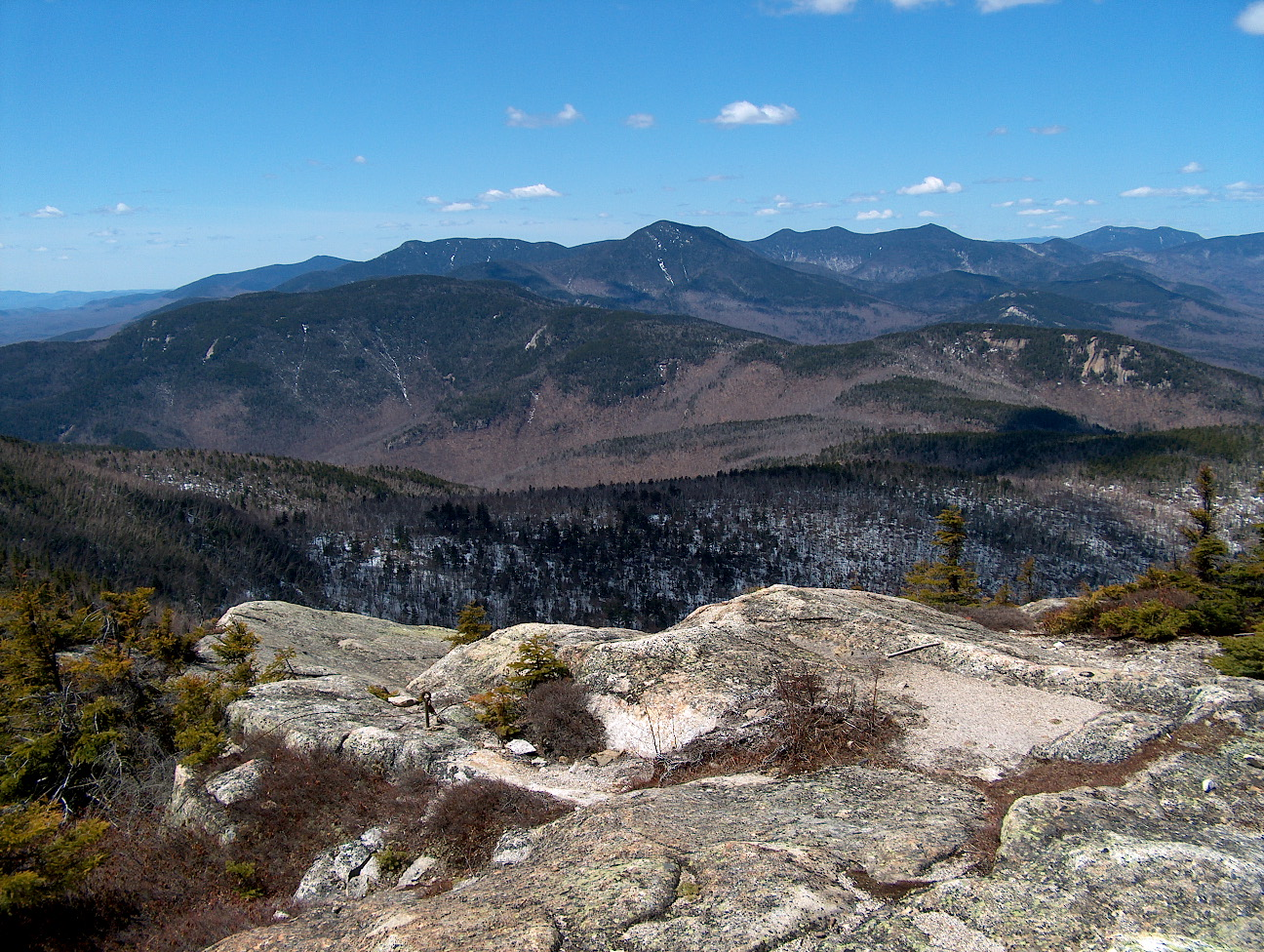 The Sandwich Range in the White Mountains (New Hampshire). Photo by Ken Gallager.